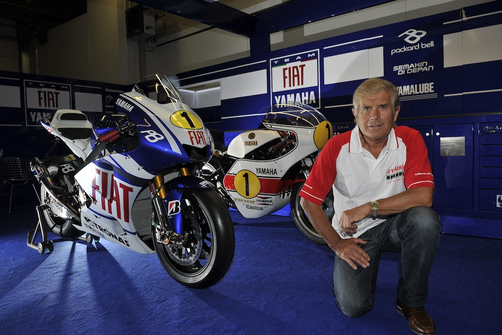 Giacomo Agostini with 1975 Yamaha YZR500 OW23 and YZR-M1 at 2010 Dutch TT.